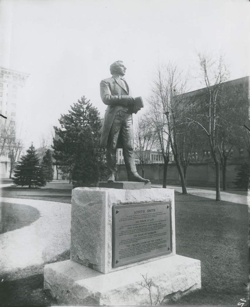 Statue of Joseph Smith on Tabernacle grounds, item 43 Statue of Hyrum Smith on Tabernacle grounds.